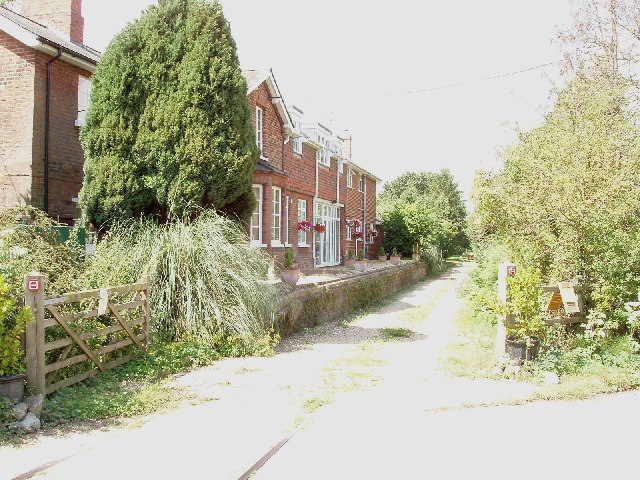 Former Bledlow Station at Old Ford